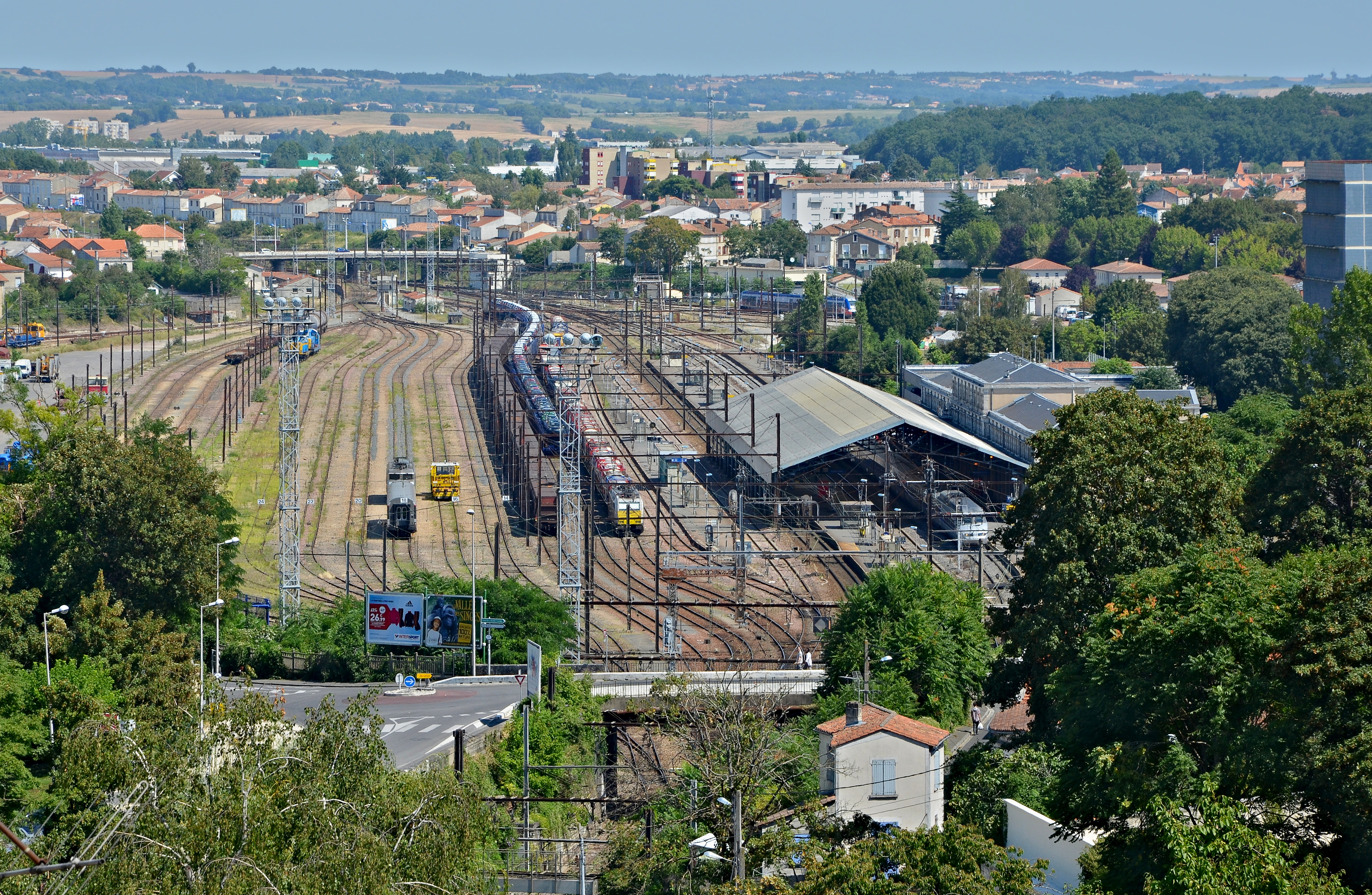 View of the station and of the railway tracks from boulevard Pasteur, Angoulême, Charente, France.